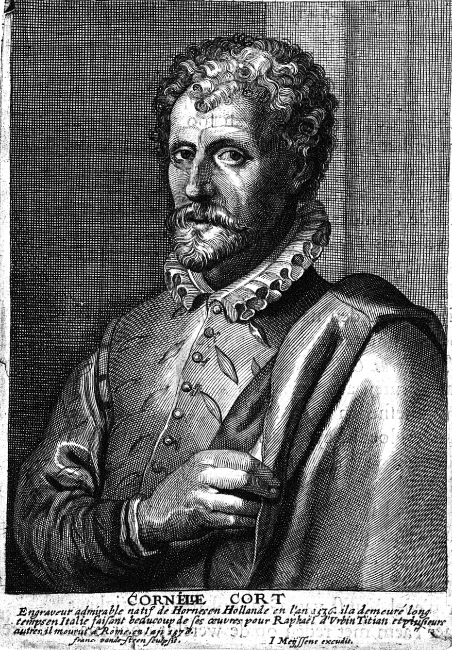 Het Gulden Cabinet, painter biographies by Cornelis de Bie for the Antwerp publisher-engraver Jan Meyssens, 1662 Cornelis Cort p 451